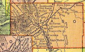 Early El Paso County Colorado map, after 1882, about 1890